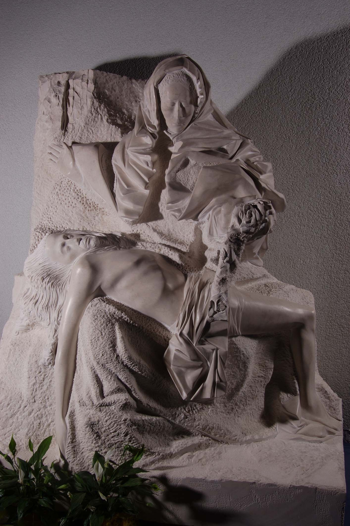 Sculpture of Pieta located in the Church of St. Vincent de Paul in Bratislava, made by Viliam Loviska